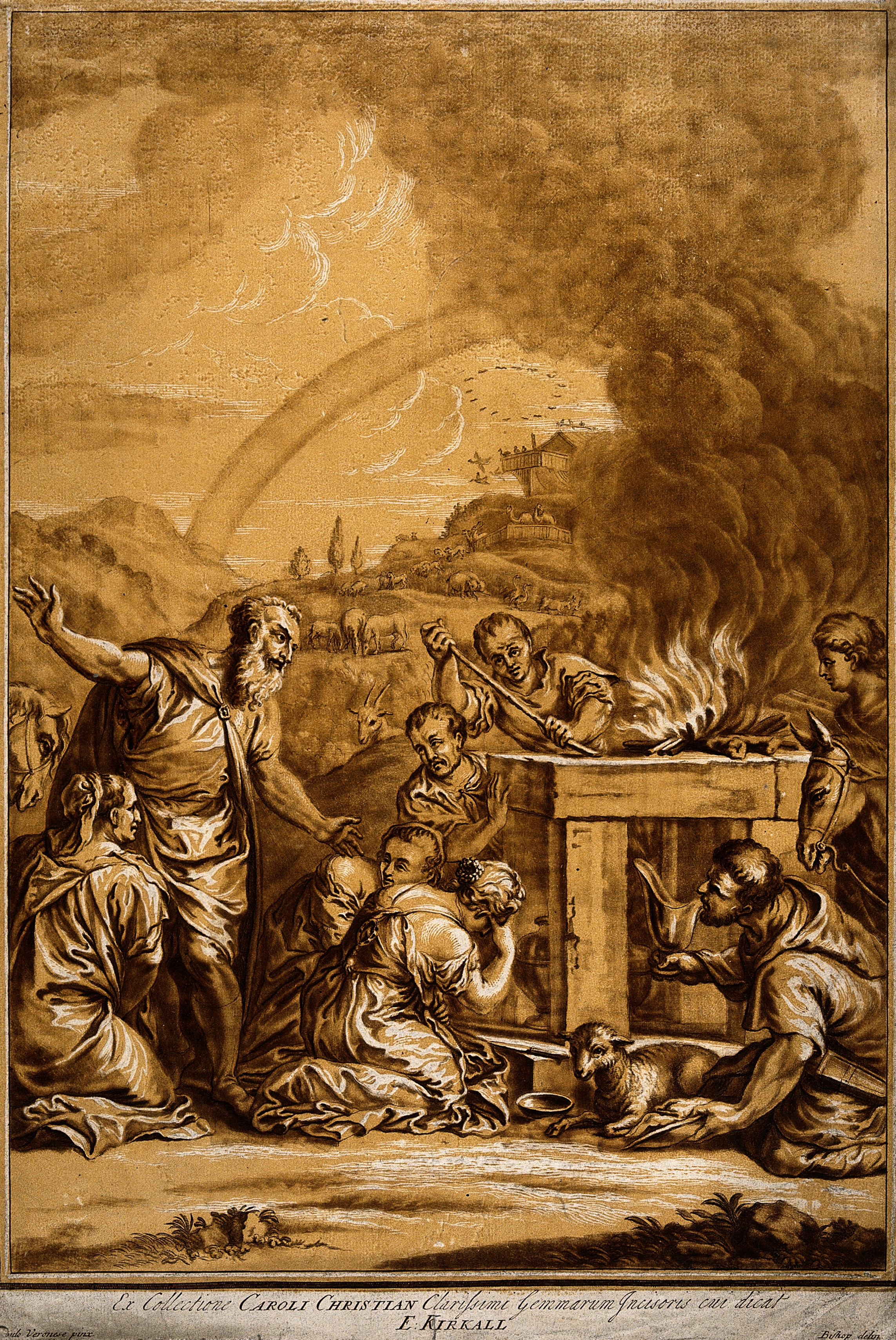 Noah's clan make their sacrifice and God responds with a rainbow. Colour etching by E. Kirkall after Bishop after P. Veronese. Iconographic Collections Keywords: Bible; Noah; myth; OLD TESTAMENT; SACRIFICE; Paolo Caliari; Elisha Kirkall; Religion; noeh; Bishop